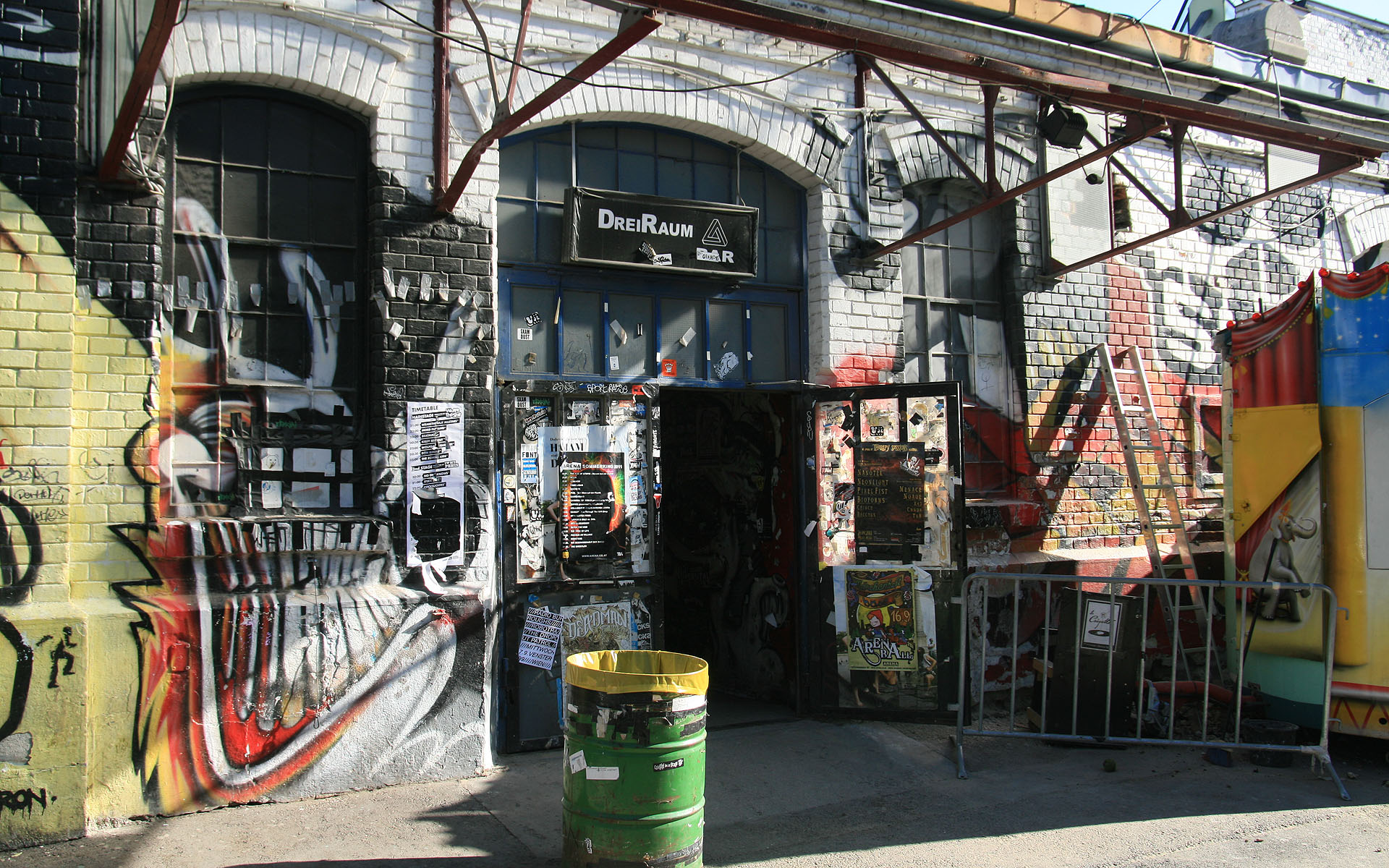 Dreiraum-Bar at the cultural center Arena in Vienna, Austria.